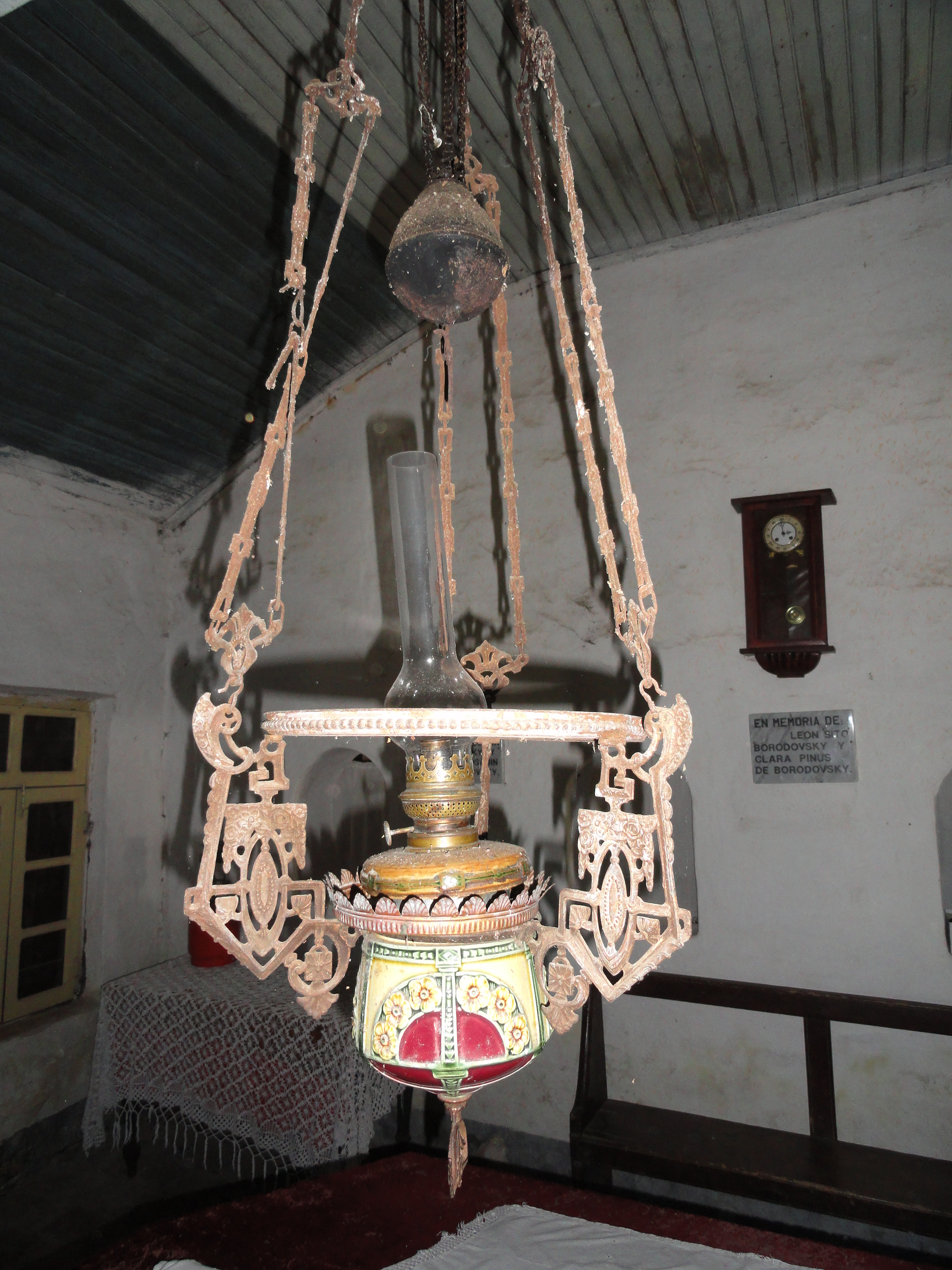 Synagogue of Novibuco in the old Jewish colony of Lucienville in the Entre Rios province in Argentina. One of the kerosene china lamp.